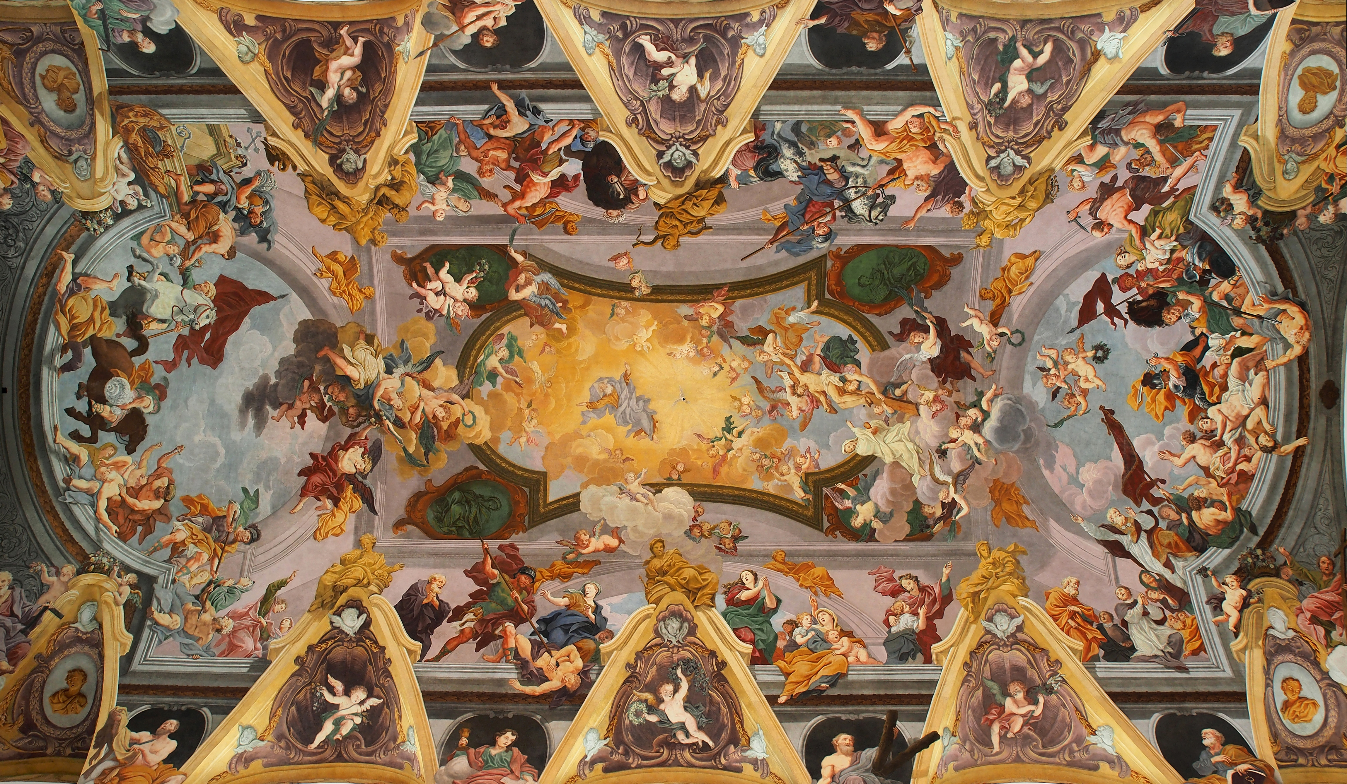 Baroque ceiling frescoes of Cathedral in Ljubljana, Slovenia. Work of Italian master Giulio Quaglio in 1703–1706 and later 1721–1723. This photograph was taken with an Olympus E-P5